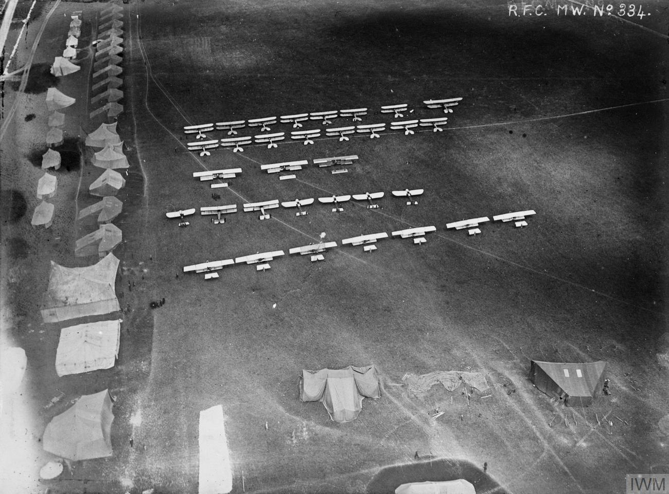 Royal Flying Corps Prior To First World War Netheravon Camp airfield.